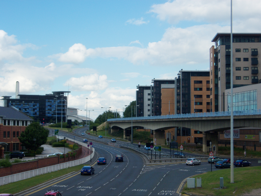 Sheffield Parkway, as viewed from Park Square. Visible is the new Parkway Edge office building (left).